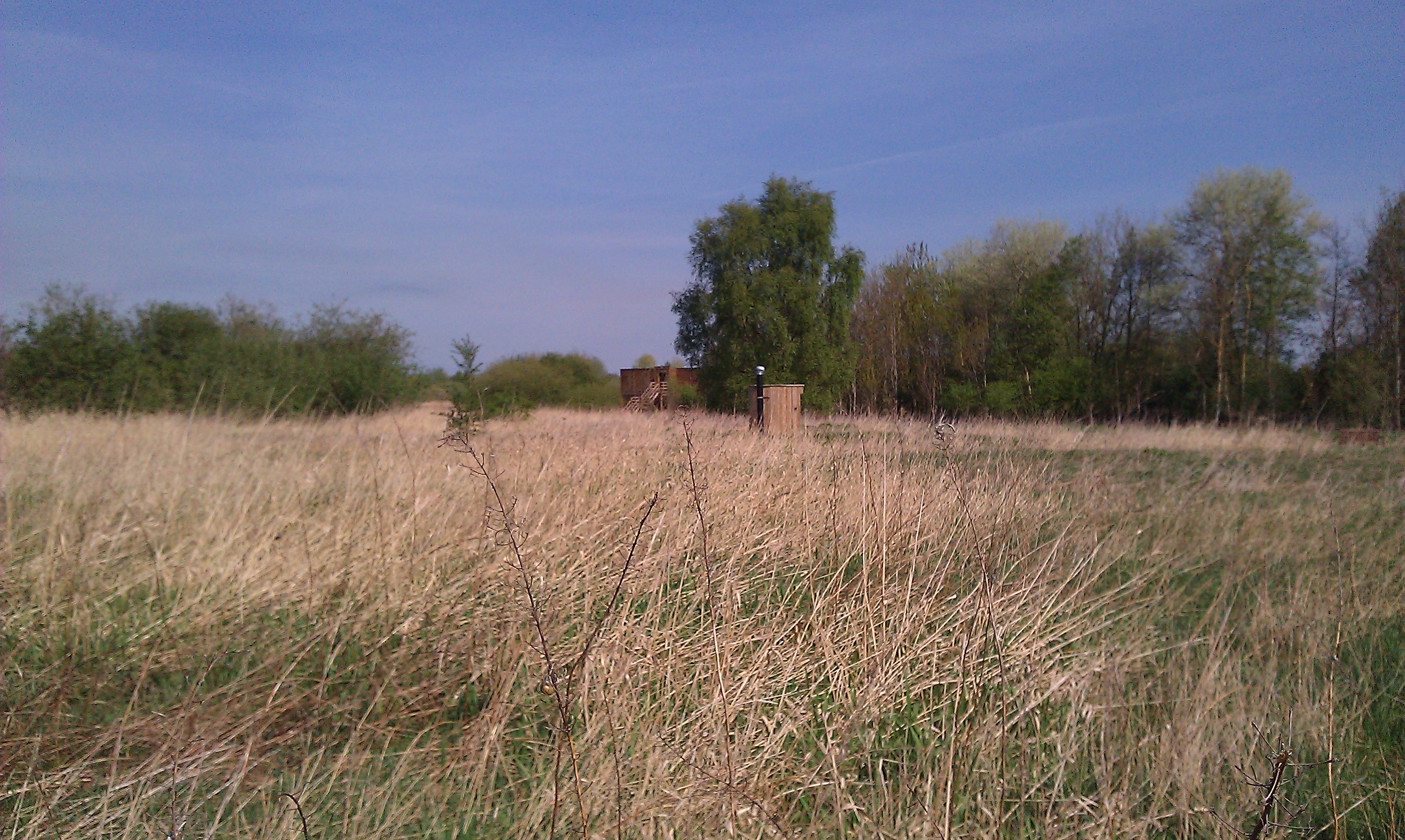 Woolston Eyes nature reserve, Warrington, England. Showing the main bird hide (circa 2010/11) and KazubaLoo evaporating and dehydrating toilet.